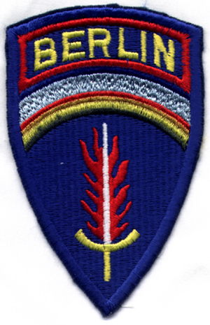 Original US Army Berlin Brigade patch as on display at the Allied Museum, the former Outpost Cinema, in Berlin